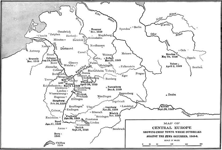 Map of the spread of the Black Death in 1348-49 through Europe